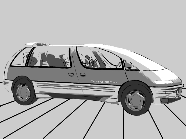 Artwork based at photos of concept car, Pontiac Trans Sport 1986